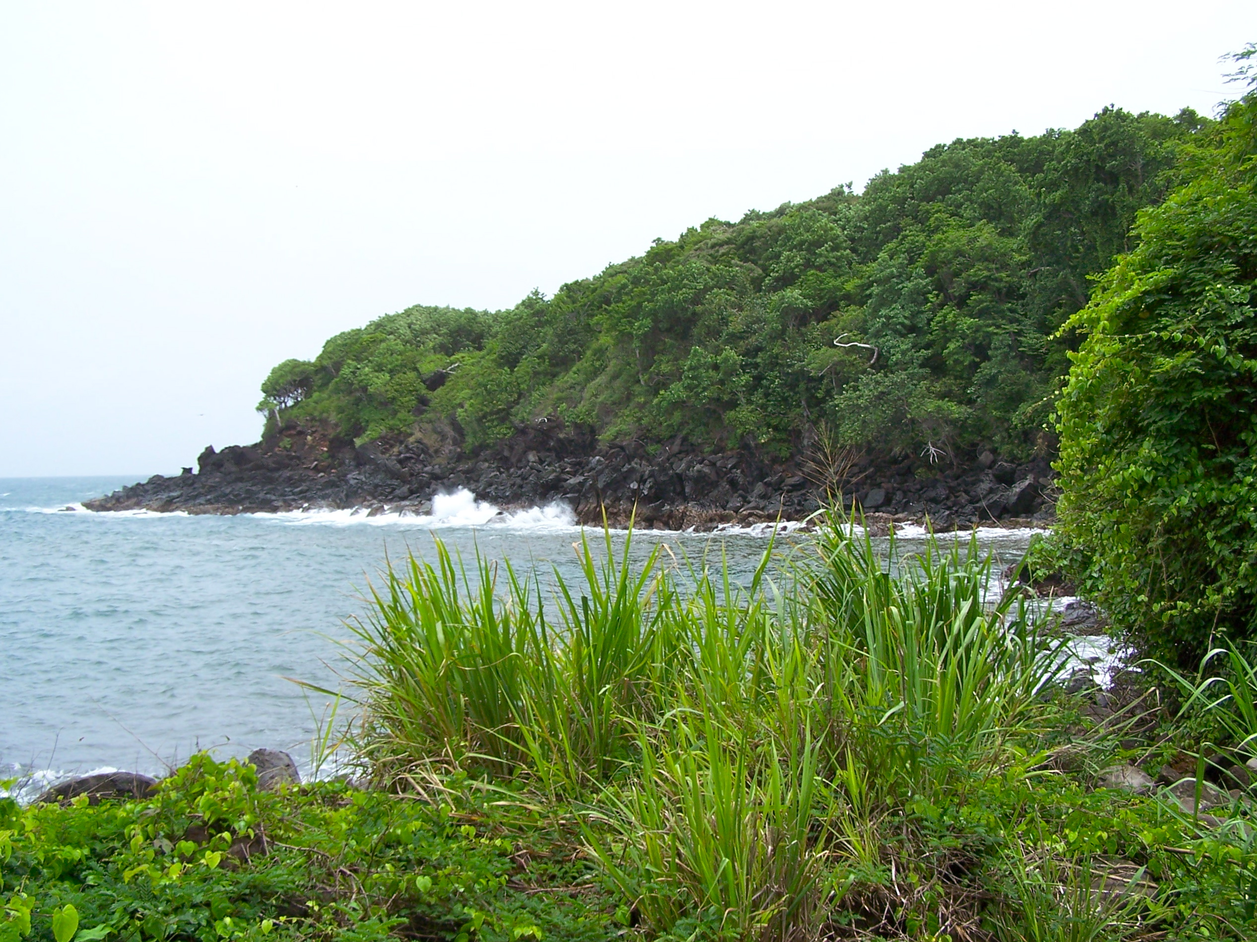 Trace littorale à Trois-Rivières : Pointe Saint-Jacques.